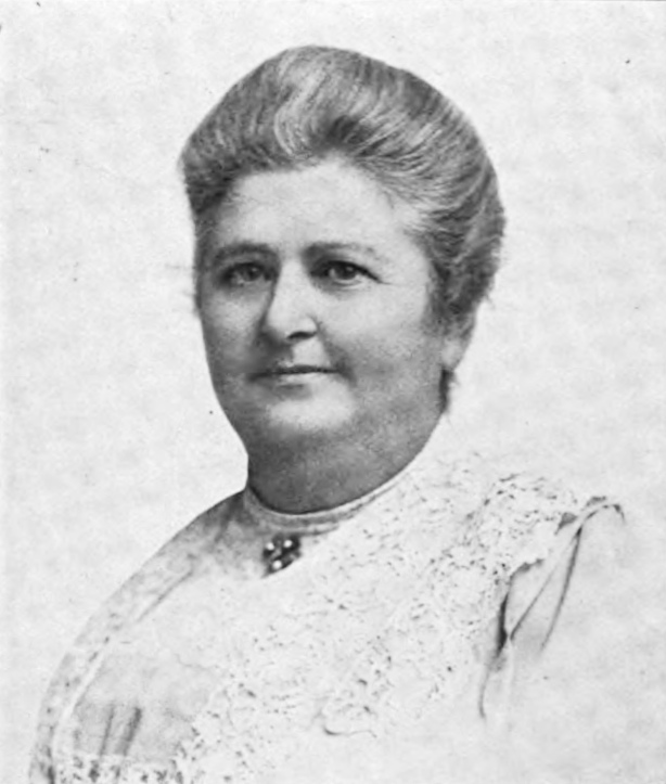 Lizzie Black Kander (1858–1940), originator of The Settlement Cook Book